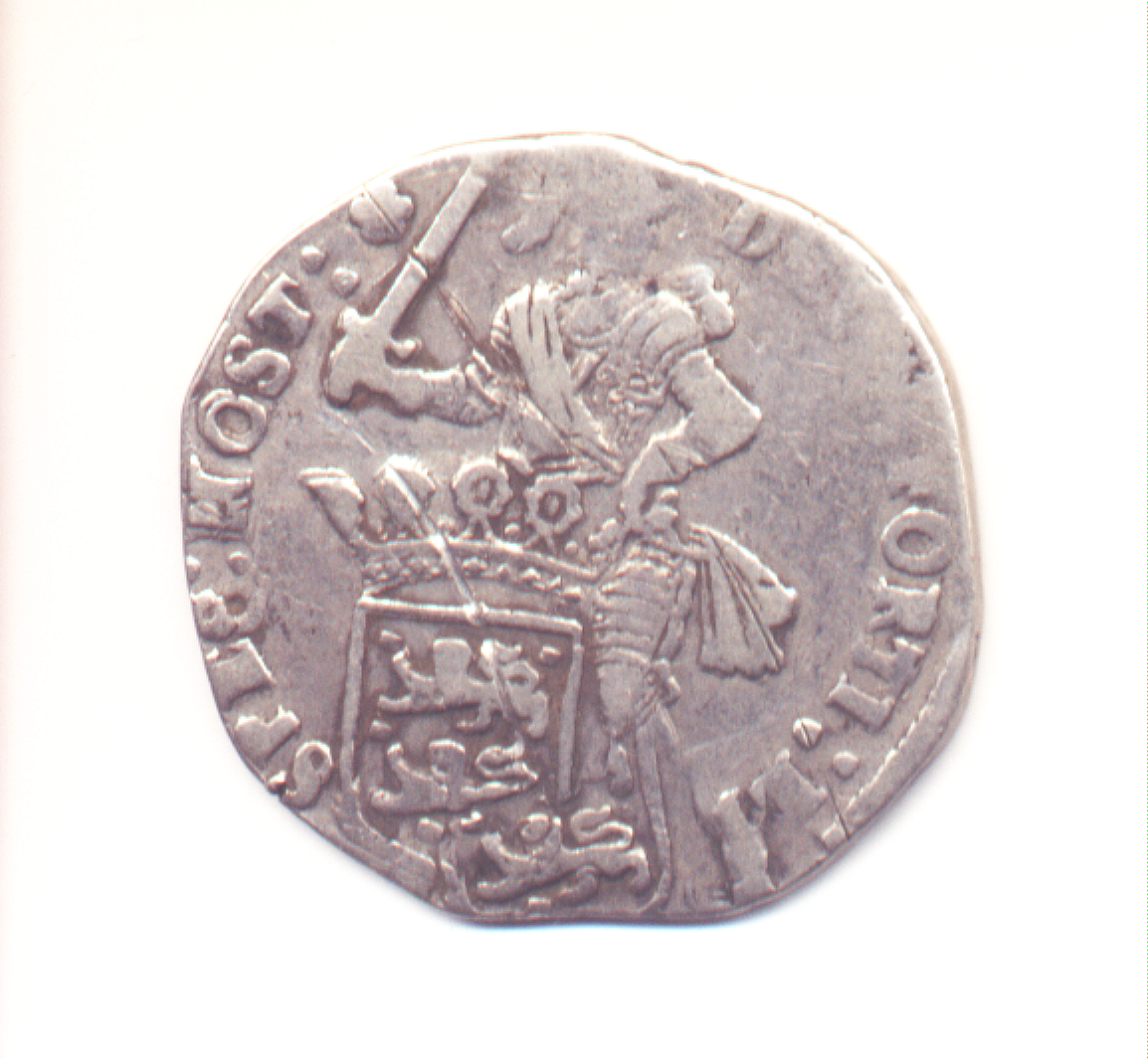 West Friesland Daalder (dutch thaler) minted in 1686. It is possible to see a double strike.